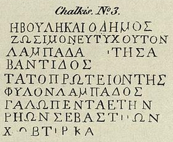 Inscription found in Chalcis, celebrating a lampadedromia.